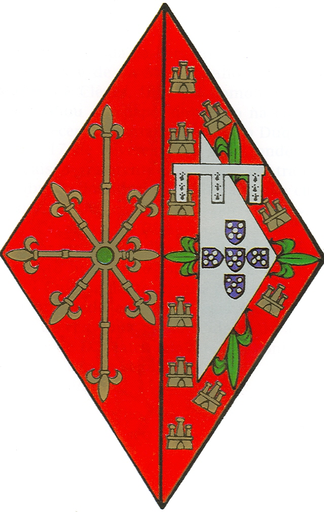 Coat of Arms of Infanta Beatrice of Coimbra, Consort Queen of Portugal